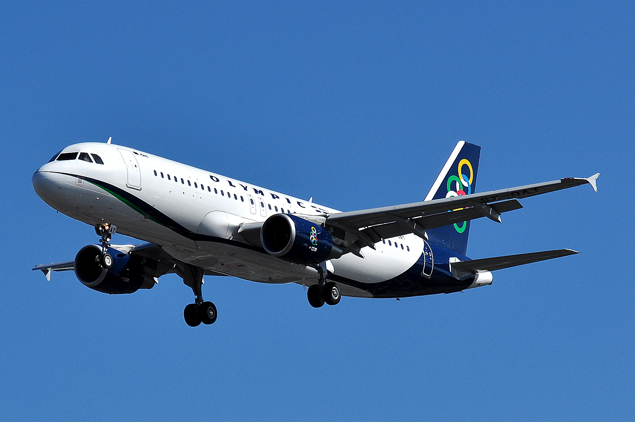 Model: Airbus A320-200 Airline: Olympic Registration number: SX-OAT